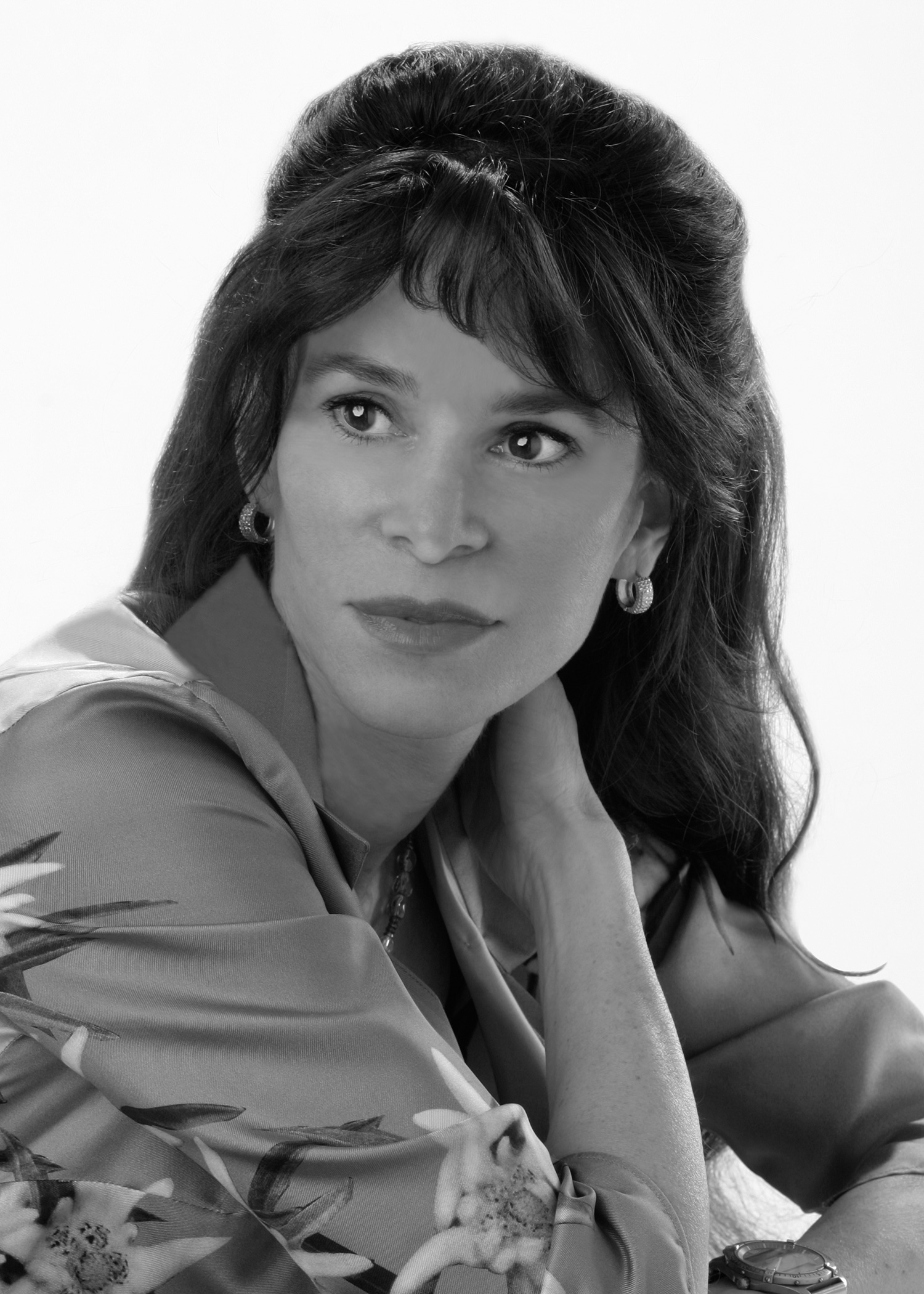 A portrait of Shelley M. Shier by Tom Caravaglia in New York City, 15 October 2004